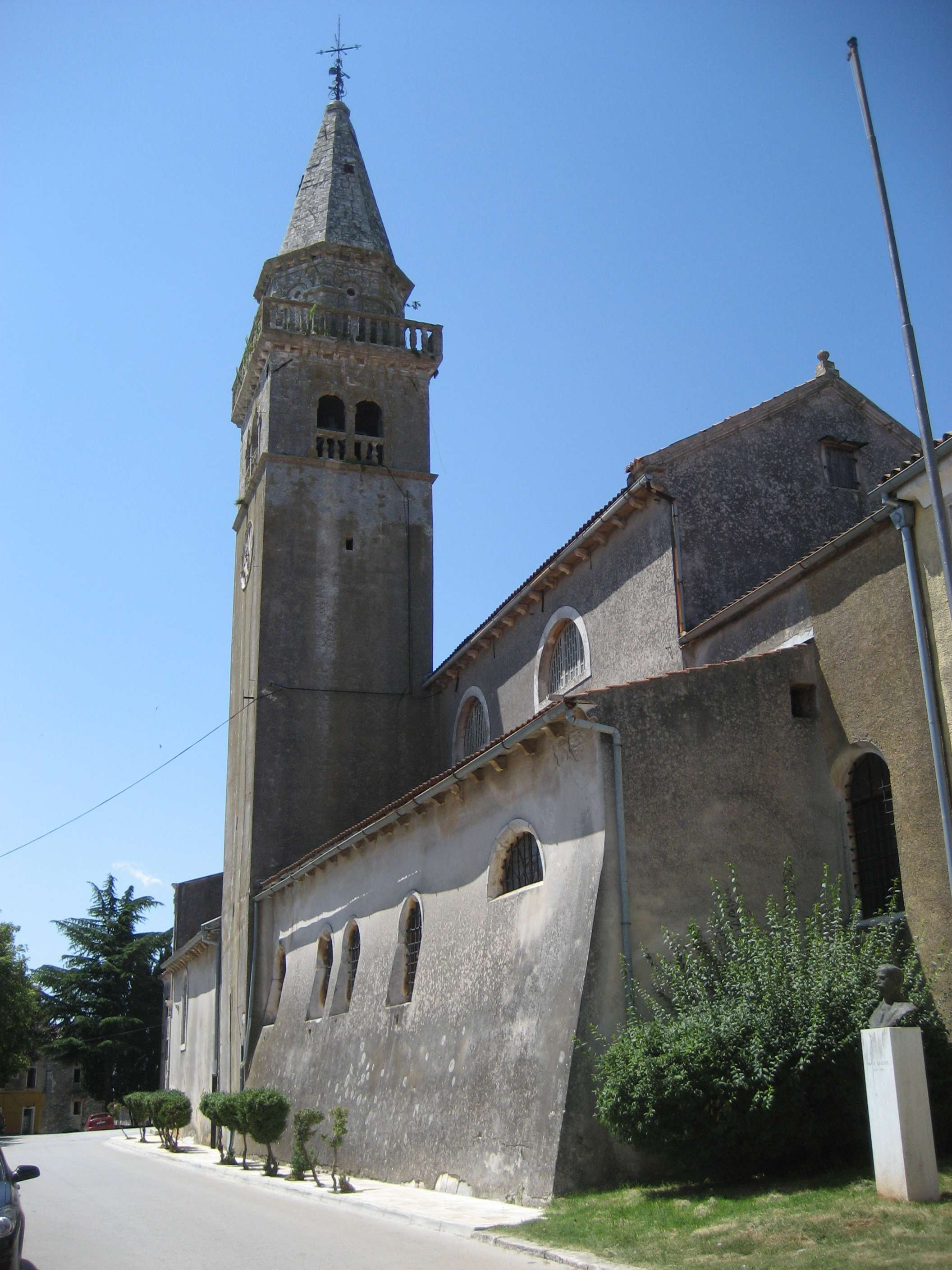 Church of St Michael the Archangel, Žminj, Croatia